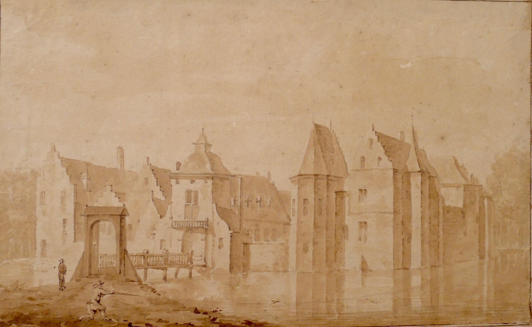 kasteel Stapelen begin 18e eeuw of vroeger, tekening A. de Haen